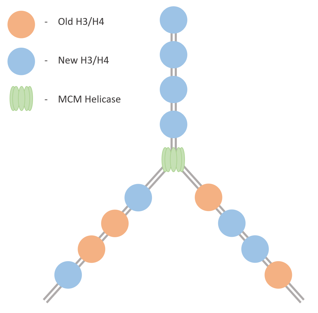 Simple depiction of conservative nucleosome duplication